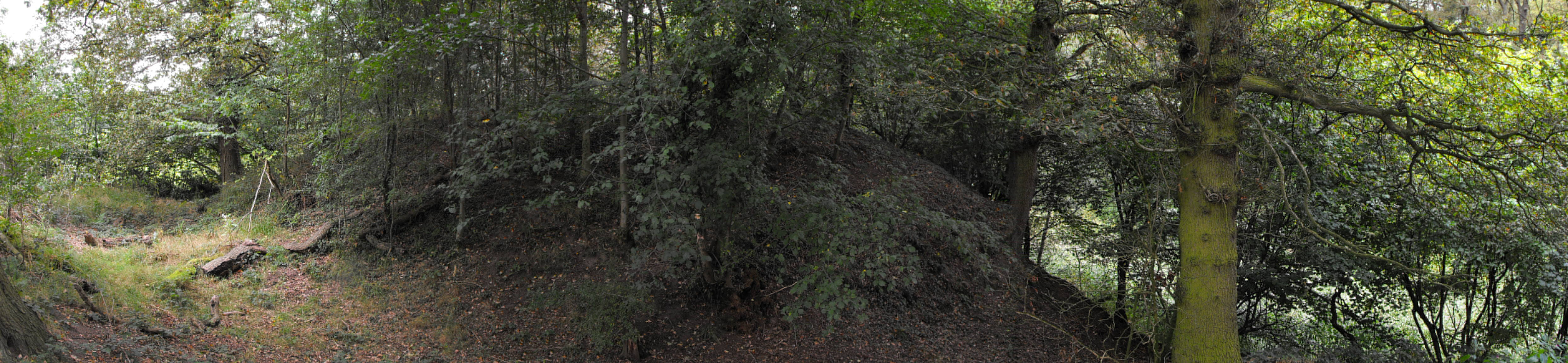 The motte of Watch Hill Castle Wikidata has entry Q7973049 with data related to this item.